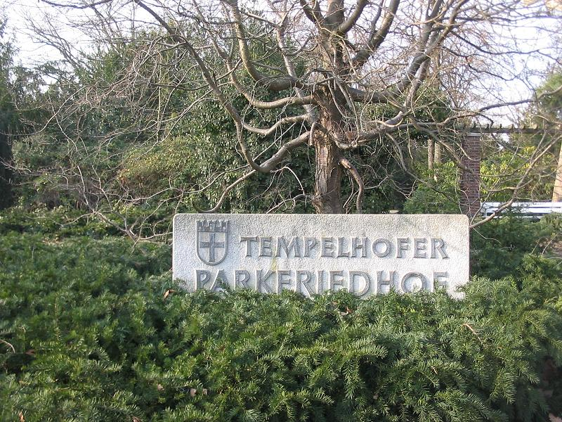 Parkfriedhof Tempelhof (german for „park cemeterie“) at Gottlieb-Dunkel-Straße (street) in Berlin-Tempelhof, opened in 1900